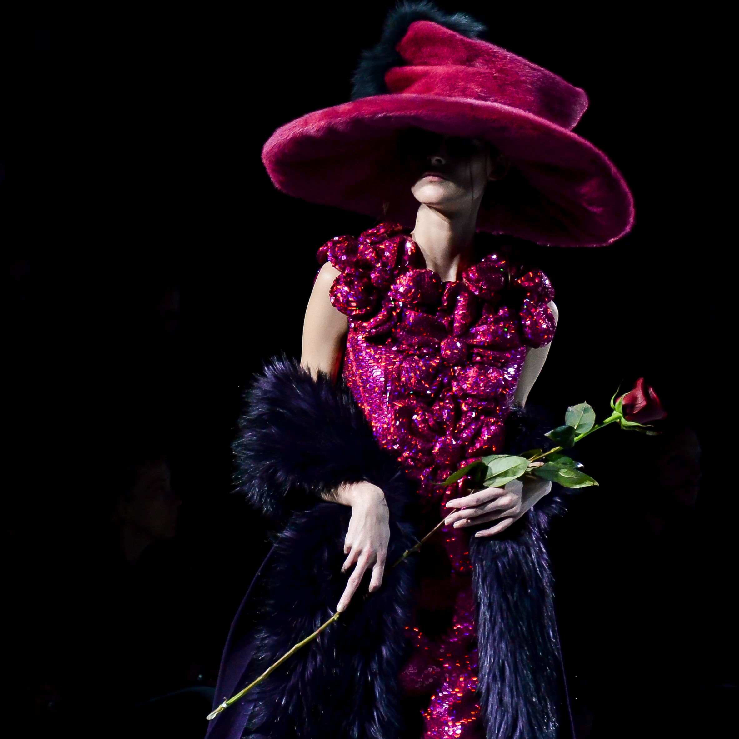 A model walks the runway at the Marc Jacobs Fall/Winter 2012 show at New York Fashion Week, February 2012.